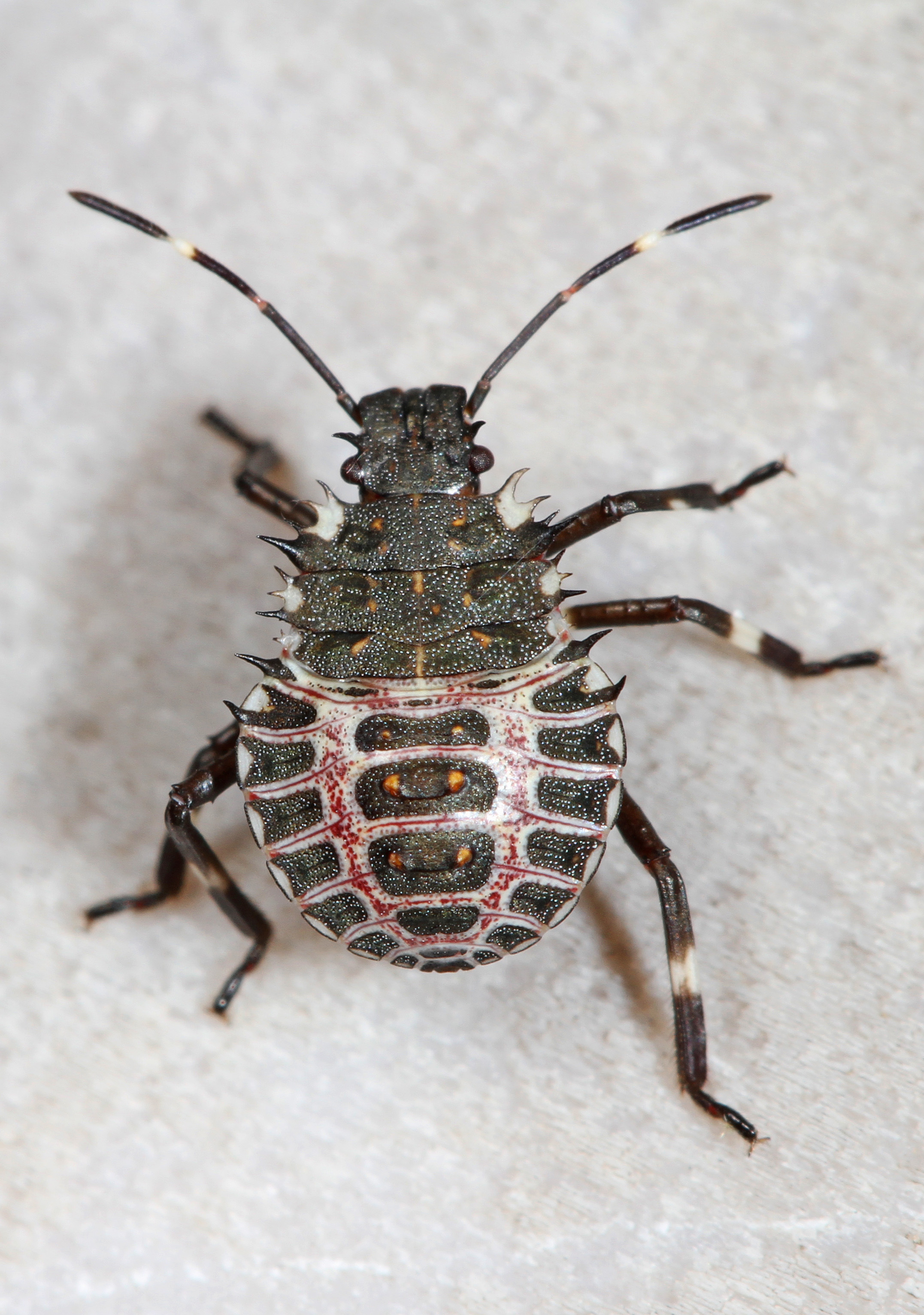 Day 194 - Brown Marmorated Stink Bug nymph - Halyomorpha halys, Woodbridge, Virginia. Sadly this is an invasive, known for congregating in houses in large numbers once it gets cold. As their name suggests, if you squish them they let out a foul odor. I really like the nymph coloration though.